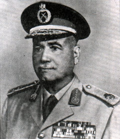 Field Marshal Ahmed Ismail Ali Commander in Chief of the Egyptian Armed Forces during Yom Kippur War